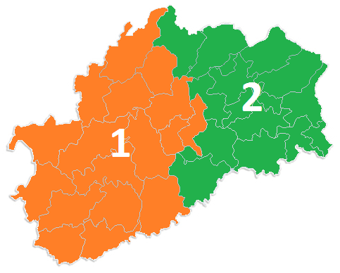 Constituencies of Haute-Saône - 2012